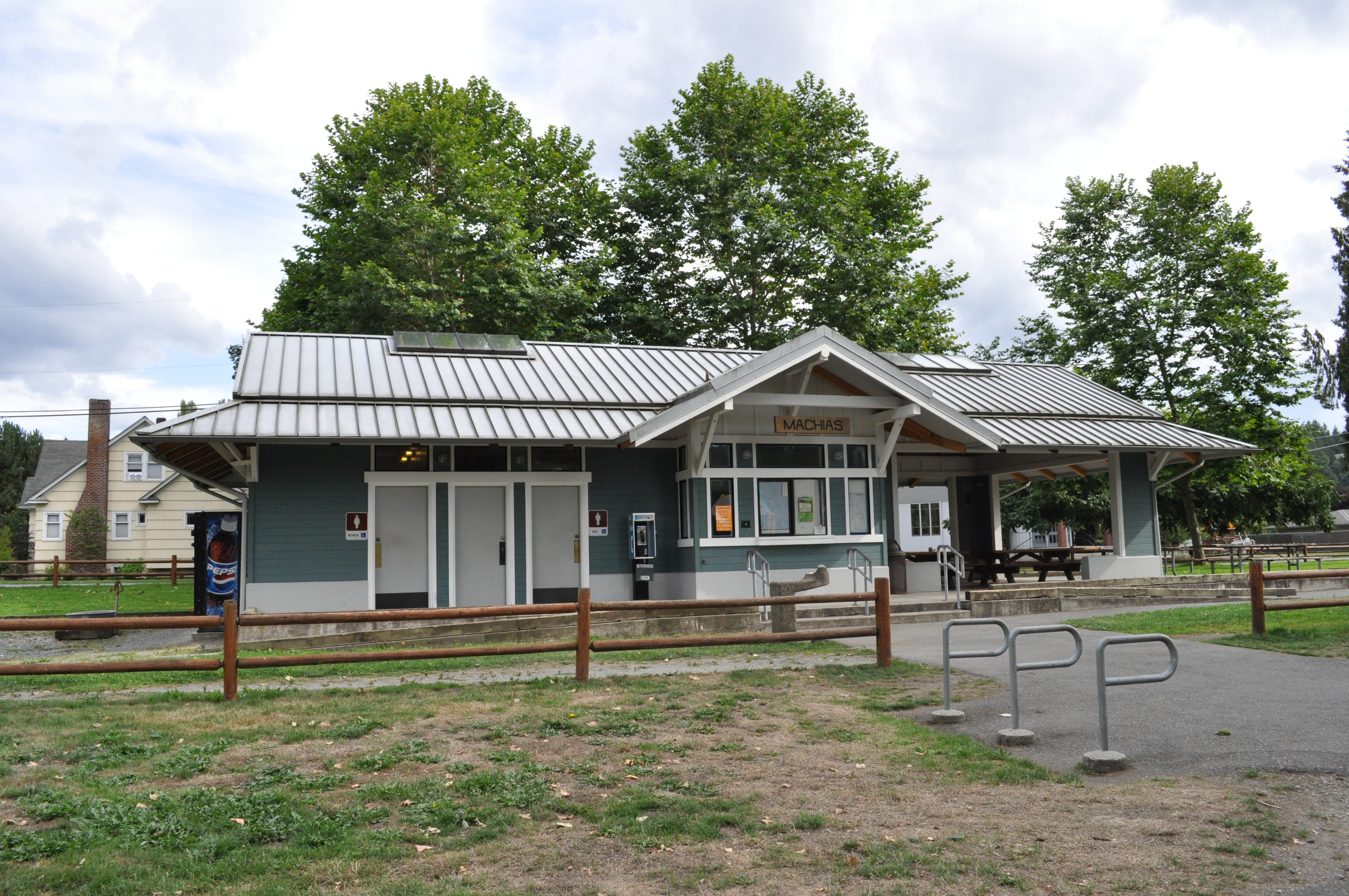 "Machias Station," a rest stop and trailhead on the Centennial Trail at about mile 6 out of Snohomish, Washington.